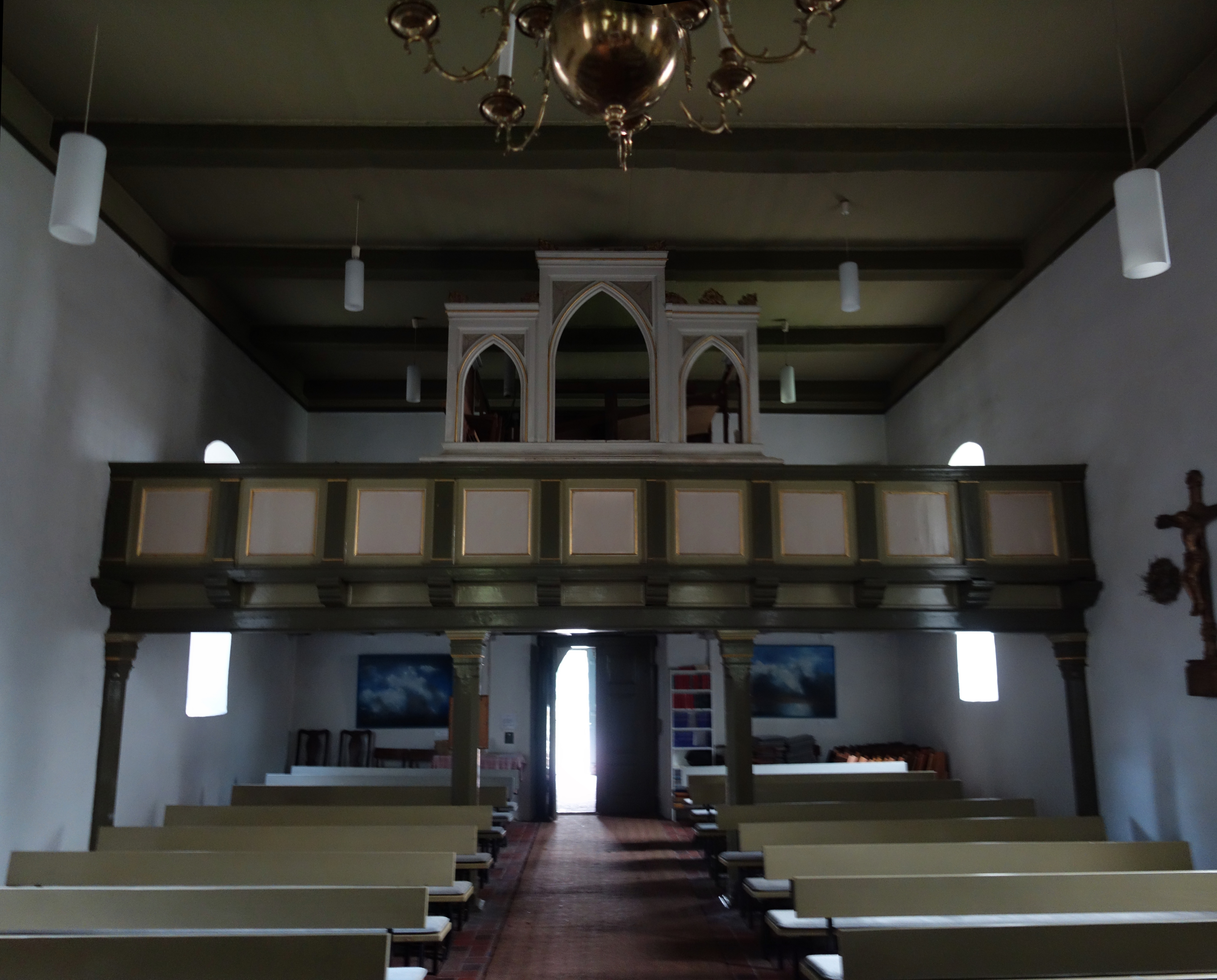 Western interior of church in Stolpe, city of Hohen Neuendorf, Oberhavel district, Brandenburg state, Germany